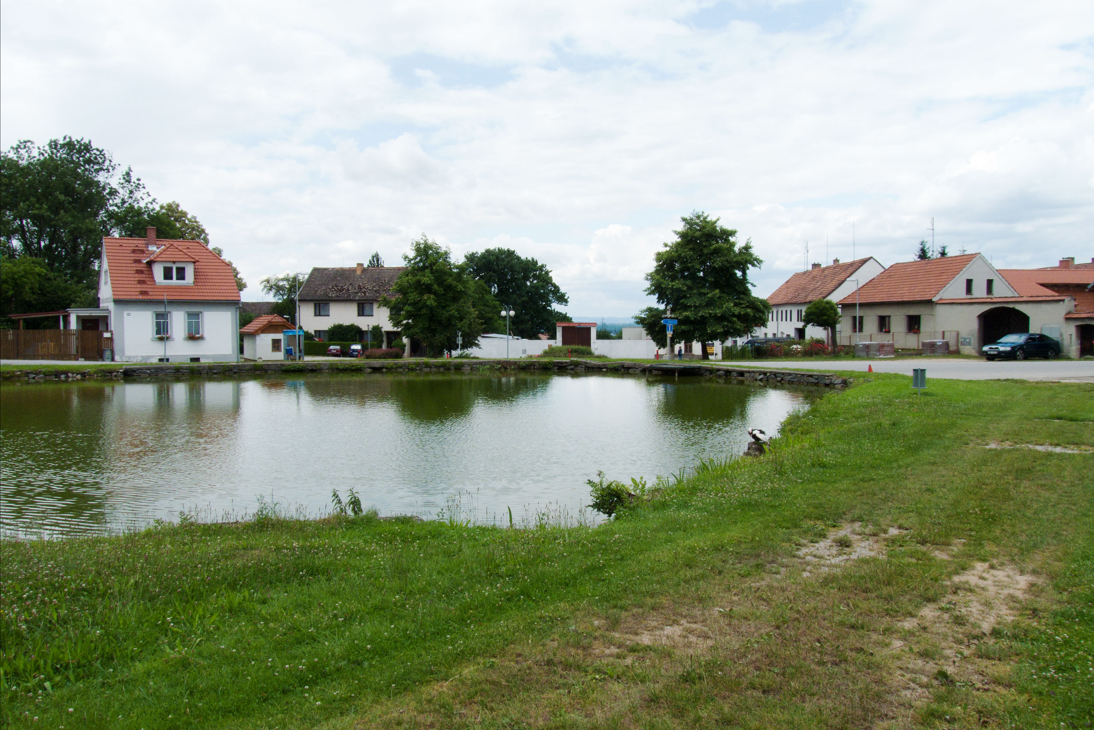 Village green in Hůry, České Budějovice District, Czech Republic. Česky: Náves v obci Hůry v okrese České Budějovice.